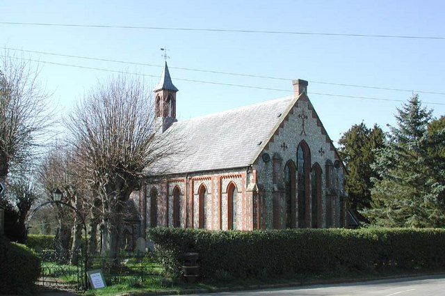 St Mary Magdalene, Flaunden, Herts